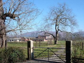 Lleweni Hall. Lleweni Hall - in its time, one of the most princely mansions of North Wales. It was bought by Dinorben family for £209,000, and most of the Hall was dismantled and some of the material used in extending nearby Kinmel Hall. The collection of paintings, etc., was dispersed, and the organ which stood in the great hall was taken to St. Hilary's Church, Denbigh. The present Lleweni Hall is used as a farmhouse